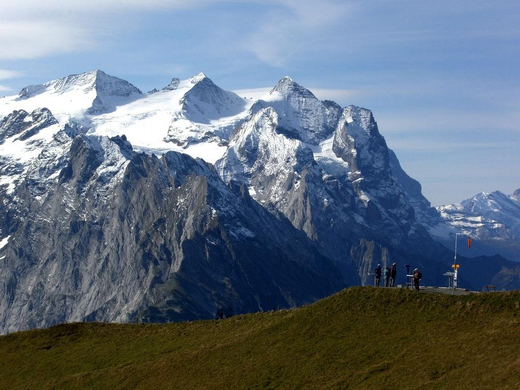 Wetterhorn (from Planplatten)